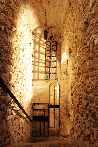 Chateau San Leo Cage